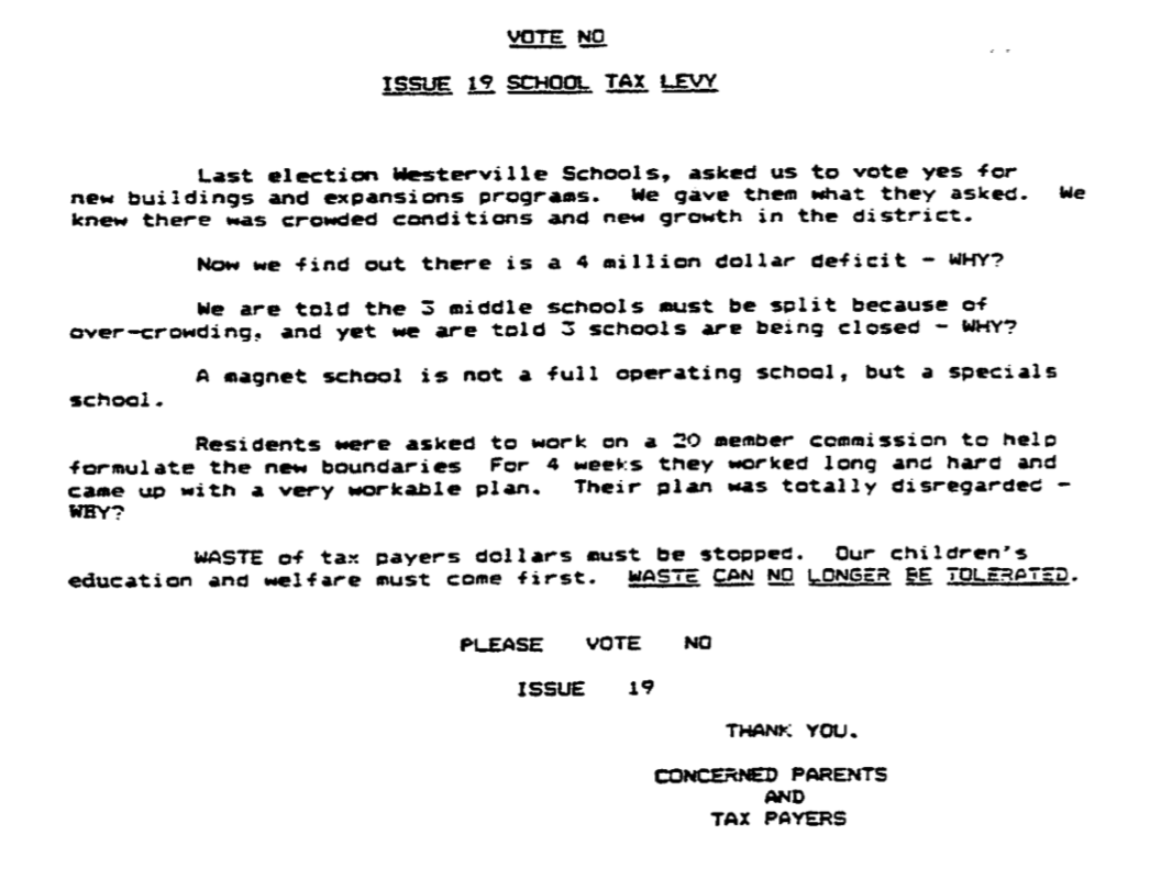 On April 27, 1988, a woman named Margaret McIntyre passed out a leaflet like this one outside of Blendon Middle School in Westerville, Ohio. At the time, the state of Ohio had a law prohibiting the distribution of any kind of political publication unless the publication contained the name and address of its author. Because McIntyre did not include her identity, she was fined $100 by the Ohio Elections Commission. Even though the fine was only $100, she appealed this fine in court, and her claim was eventually heard by the Supreme Court of the United States, which struck down the Ohio law in McIntyre v. Ohio Elections Commission, 514 U.S. 334 (1995), as a violation of the First Amendment to the United States Constitution. The leaflet reads: VOTE NOISSUE 19 SCHOOL TAX LEVY Last election Westerville Schools, asked us to vote yes for new buildings and expansion programs. We gave them what they asked. We knew there was crowded conditions and new growth in the district. Now we find out there is a 4 million dollar deficit – WHY? We are told the 3 middle schools must be split because of over-crowding, and yet we are told 3 schools are being closed – WHY? A magnet school is not a full operating school, but a specials school. Residents were asked to work on a 20 member commission to help formulate the new boundaries For 4 weeks they worked long and hard and came up with a very workable plan. Their plan was totally disregarded – WHY? WASTE of tax payers dollars must be stopped. Our children's education and welfare must come first. WASTE CAN NO LONGER BE TOLERATED. PLEASE VOTE NO ISSUE 19 THANK YOU. CONCERNED PARENTSANDTAX PAYERS